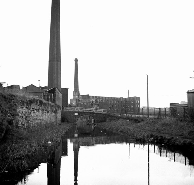 Ashton Canal at Ashton-under-Lyne, in Greater Manchester, England.